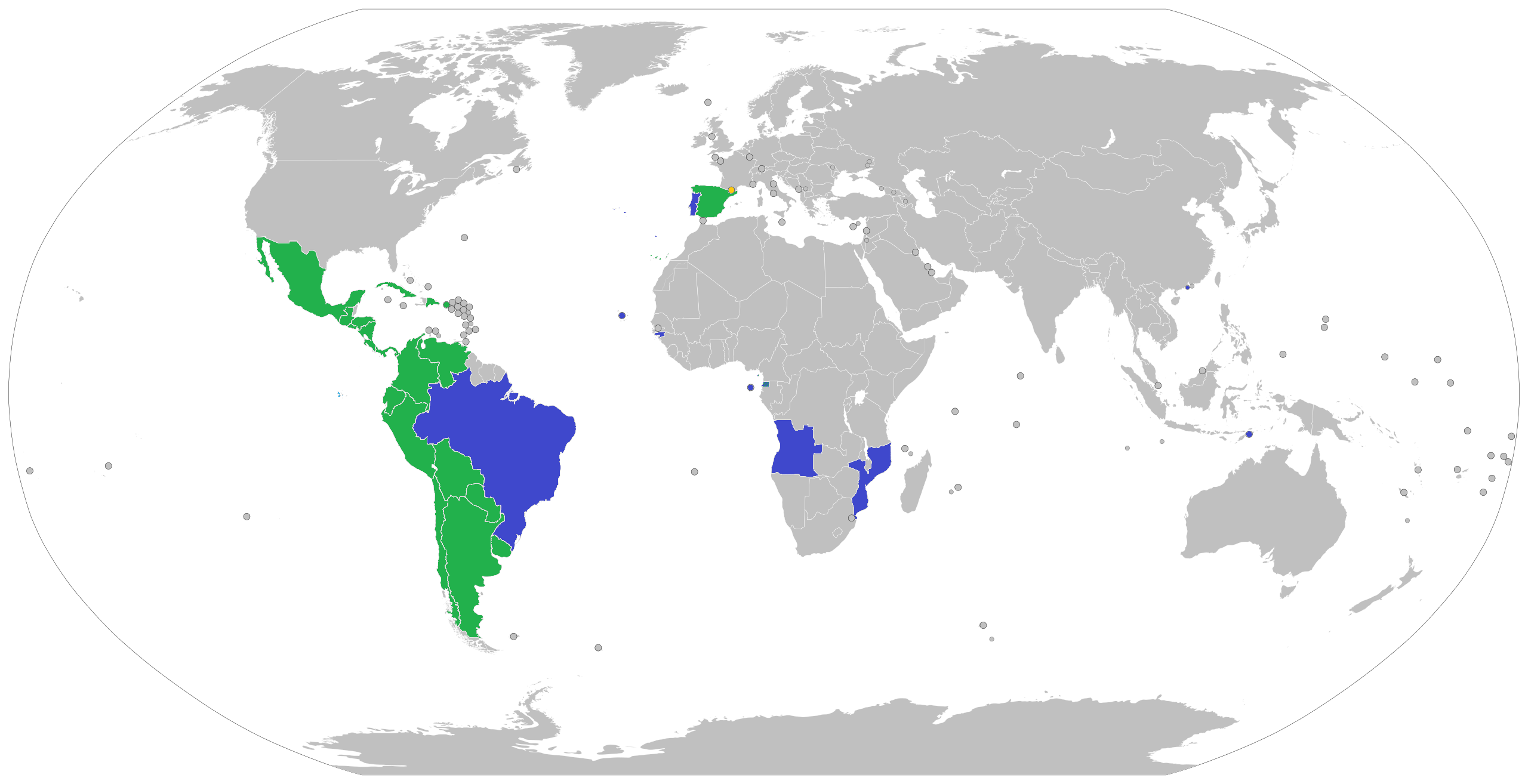 Portuguese-speaking countries. Spanish-speaking countries. Catalan-speaking Andorra.